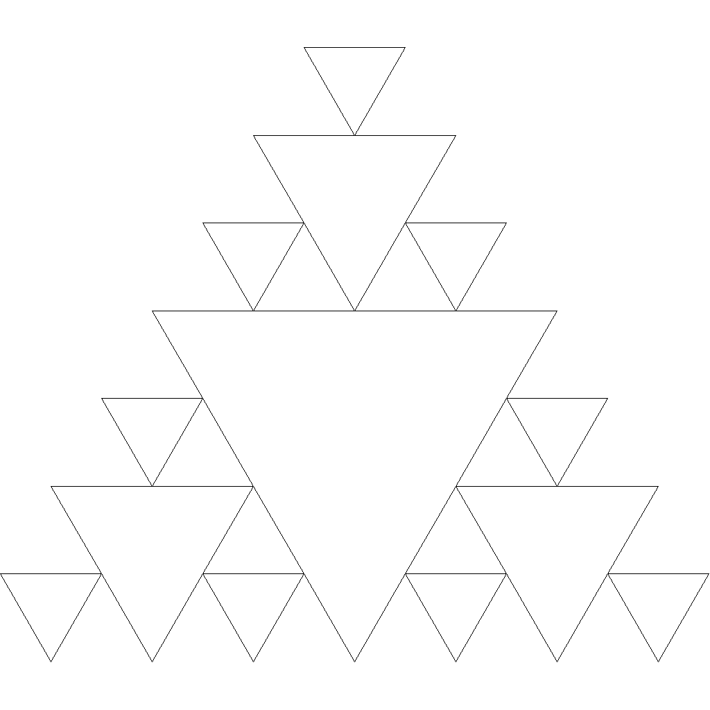 S3 Sierpinski L2 All